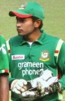 Bangladesh team is returning to the dressing room, at Sher-e-Bangla Cricket Stadium, Dhaka.